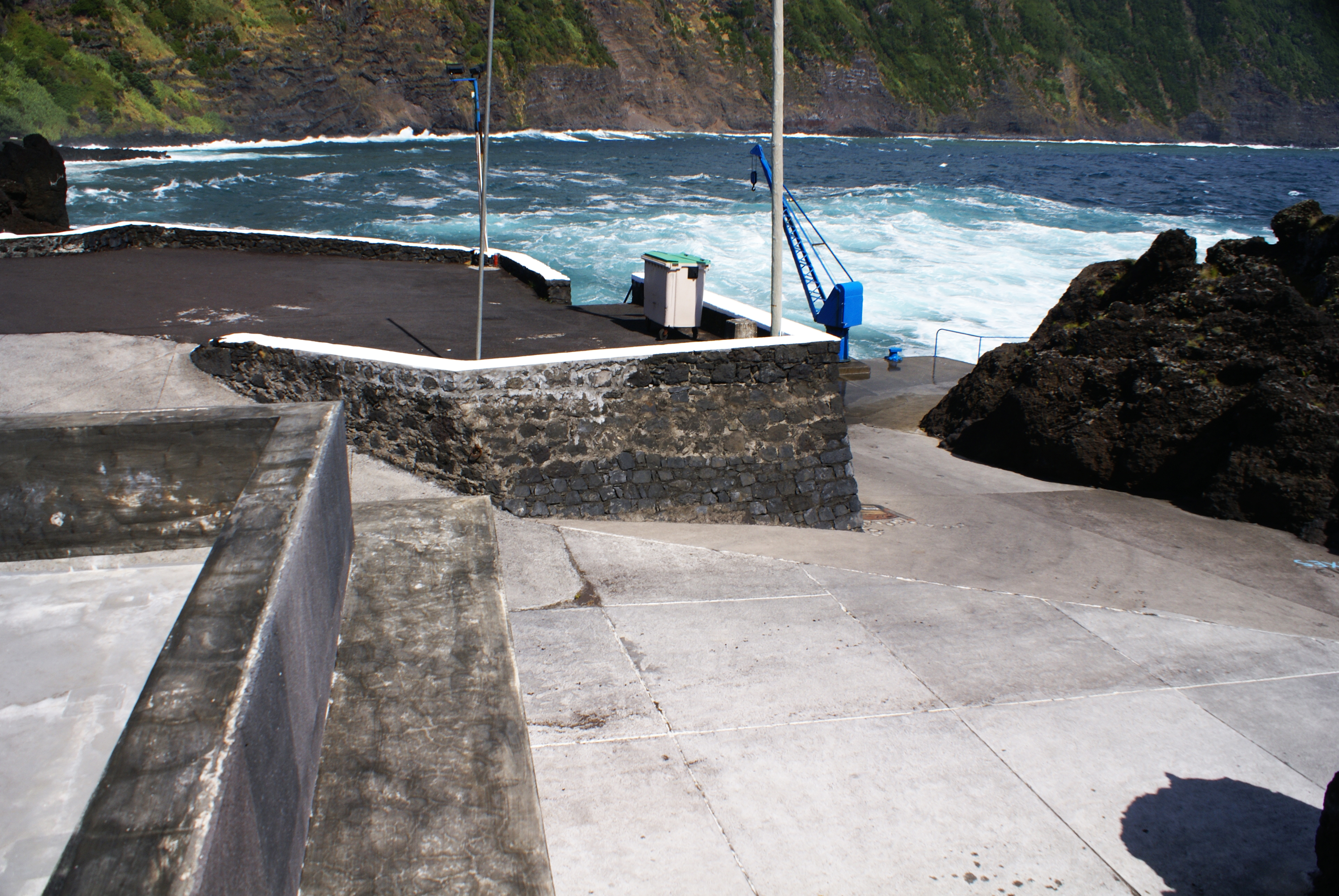 Porto do Varadouro, vista parcia, concelho da Horta, ilha do Faial, Açores, Portugal